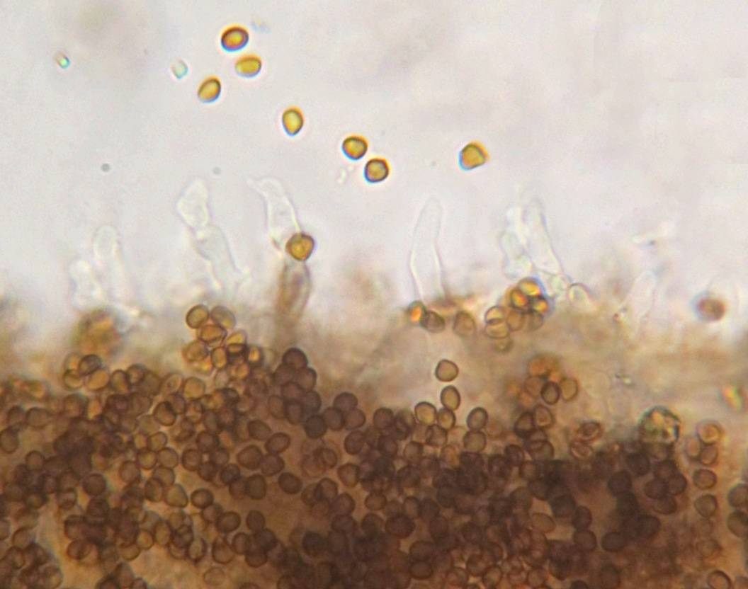 Spores and cheilocystidia from the psychedelic mushroom Psilocybe yungensis Singer & A.H.Sm. Specimens collected from Jalisco, Mexico.